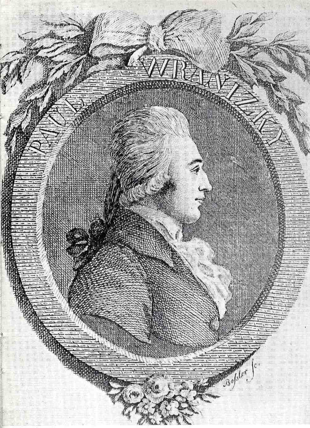 Paul Wranitzky. Engraving by Bossler.